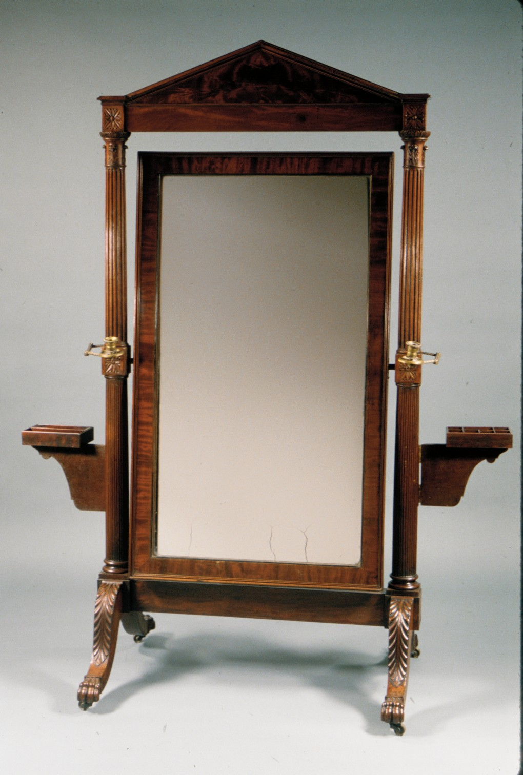 American; Cheval glass; Furniture